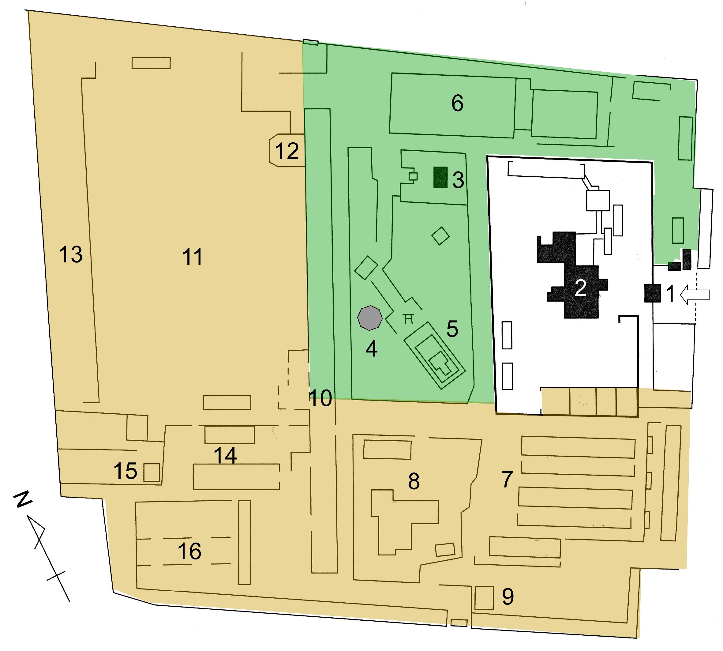 Outline of Kôdôkan, Mito